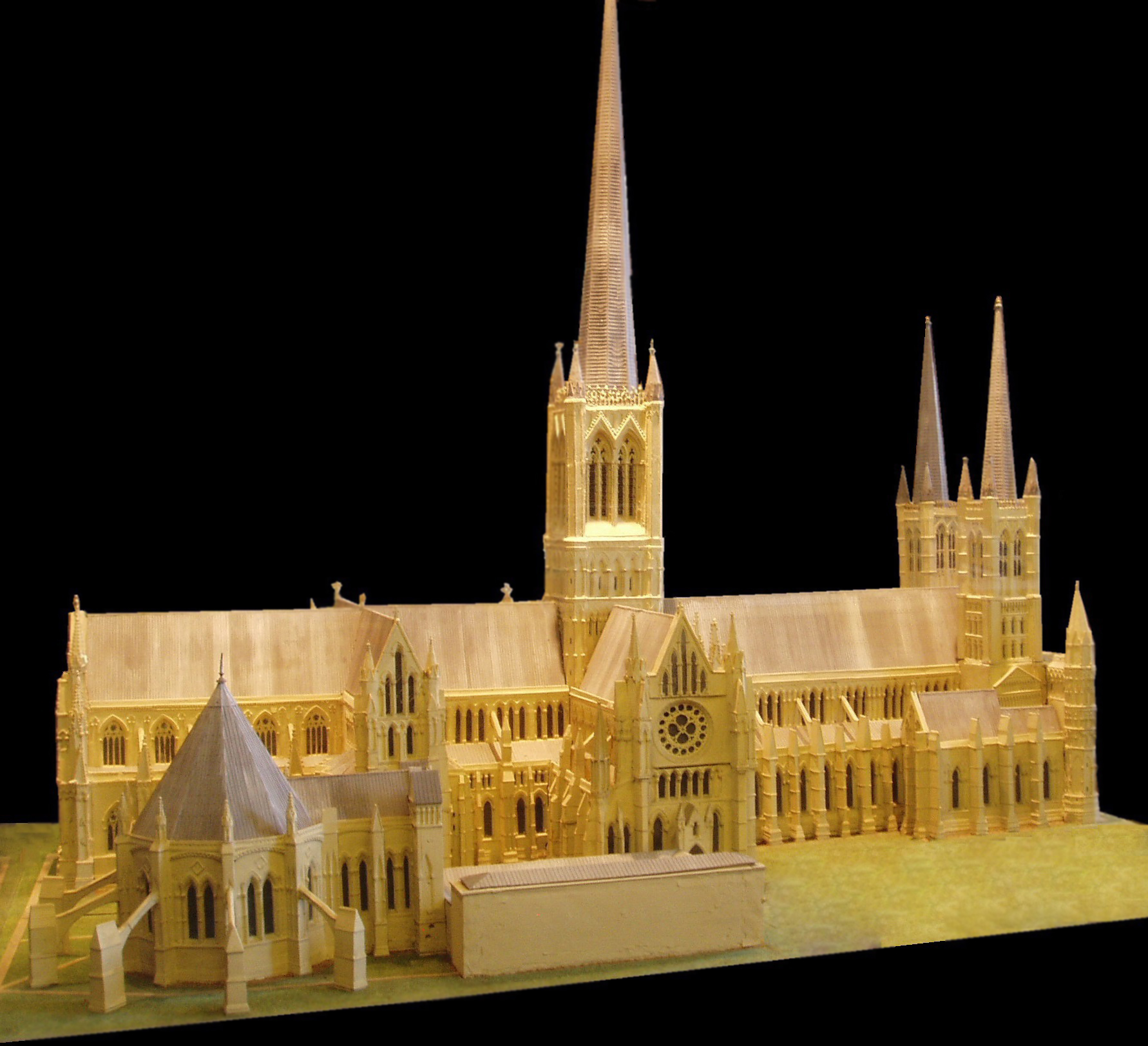 Model displayed inside the nave roof showing the cathedral as it would have appeared in the Middle Ages when it was completed by three tapering lead-covered wooden spires, that on the central tower being for some years the World's tallest structure.